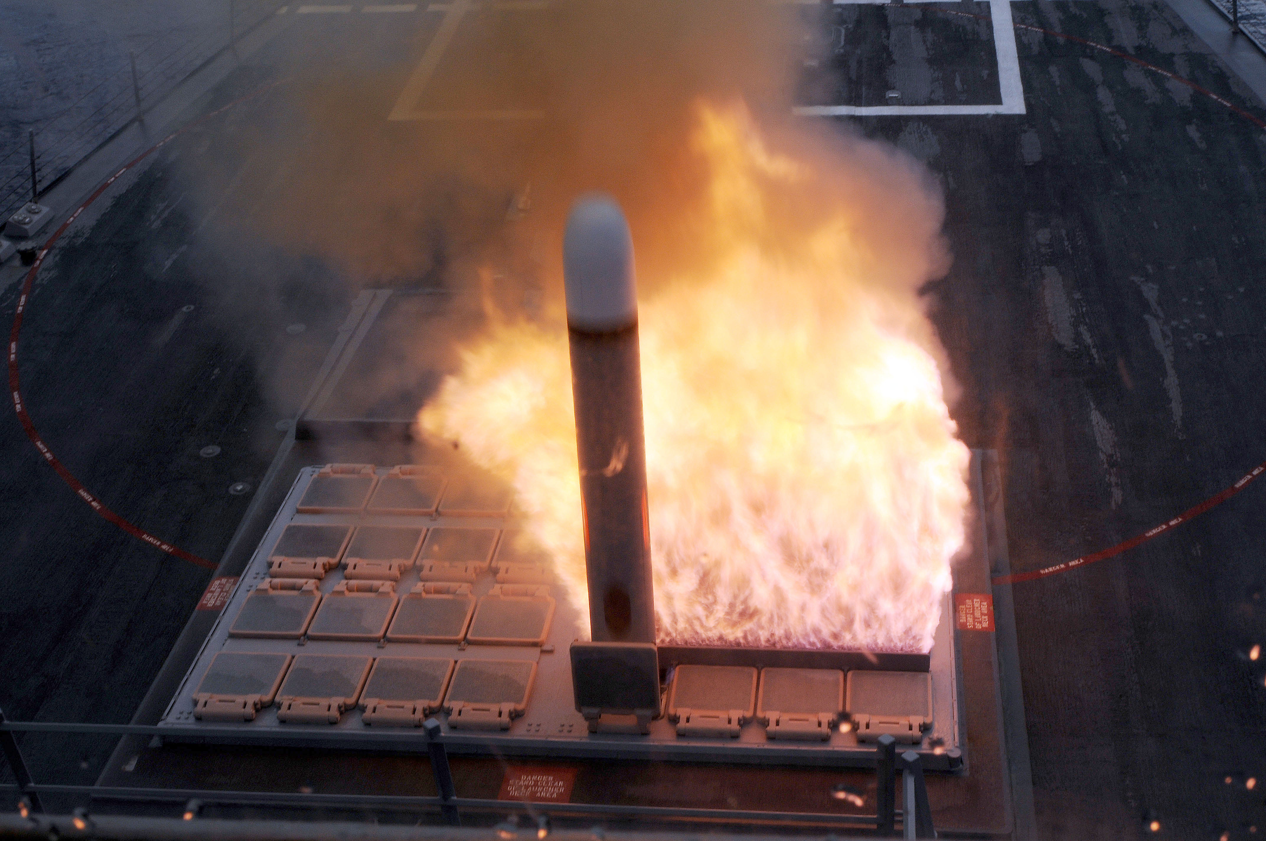 ATLANTIC OCEAN (Aug. 25, 2009) A Tactical Tomahawk Cruise Missile launches from the forward missile deck aboard the guided-missile destroyer USS Farragut (DDG 99) during a training exercise. This training exercise is part of a U.S. 2nd Fleet initiative to prepare ships to operate independently for non-traditional warfare missions such as counter-piracy and visit, board, search, and seizure. (U.S. Navy photo by Mass Communication Specialist 1st Class Leah Stiles/Released)